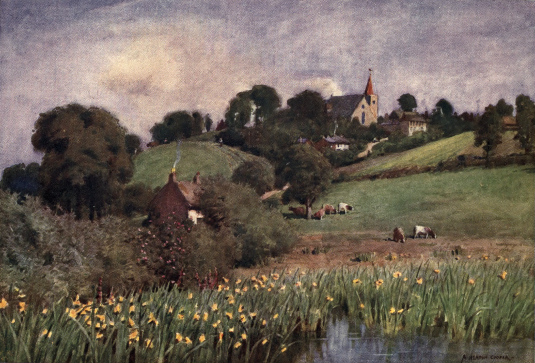 "Newchurch—The Mother Church of Ryde" (Isle of Wight), painted by A. Heaton Cooper.